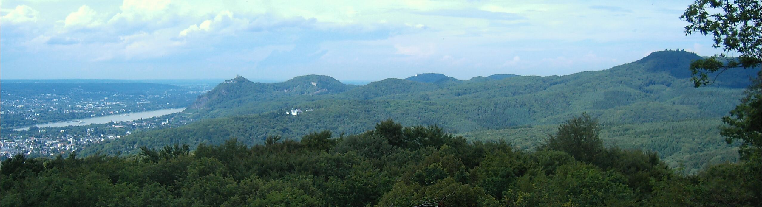 Panoramic view of the Siebengebirge hills from the Leyberg in Bad Honnef. On the left there is the Rhine river, also parts of Bonn-Bad Godesberg.